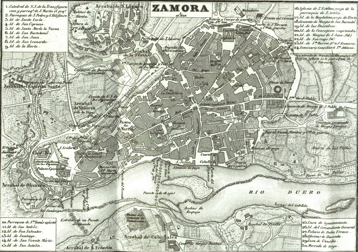 Map of Zamora cropped from the 1863 province of Zamora map by Francisco Coello